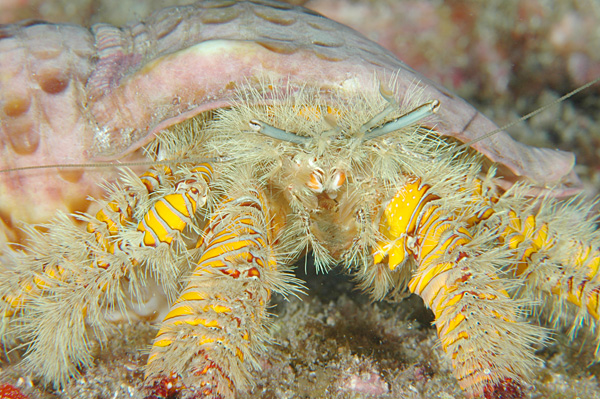 Hairy Orange Hermit Crab (Aniculus maximus), Kona, Hawaii. Image taken by Clark Anderson/Aquaimages.